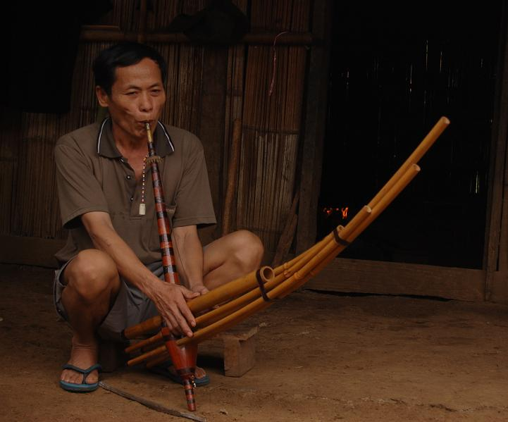 A H’Mong man playing a mouth organ kenh